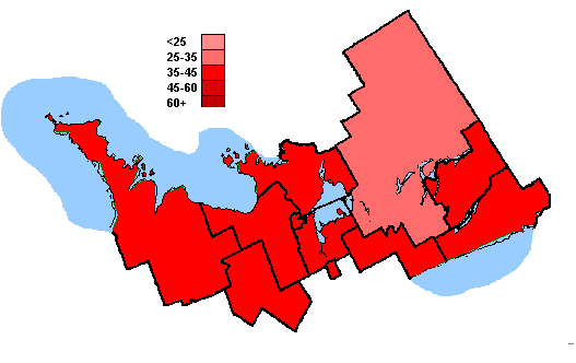 Map made by uploader (User:Earl Andrew); see [1] (question about source) and [2] (response).